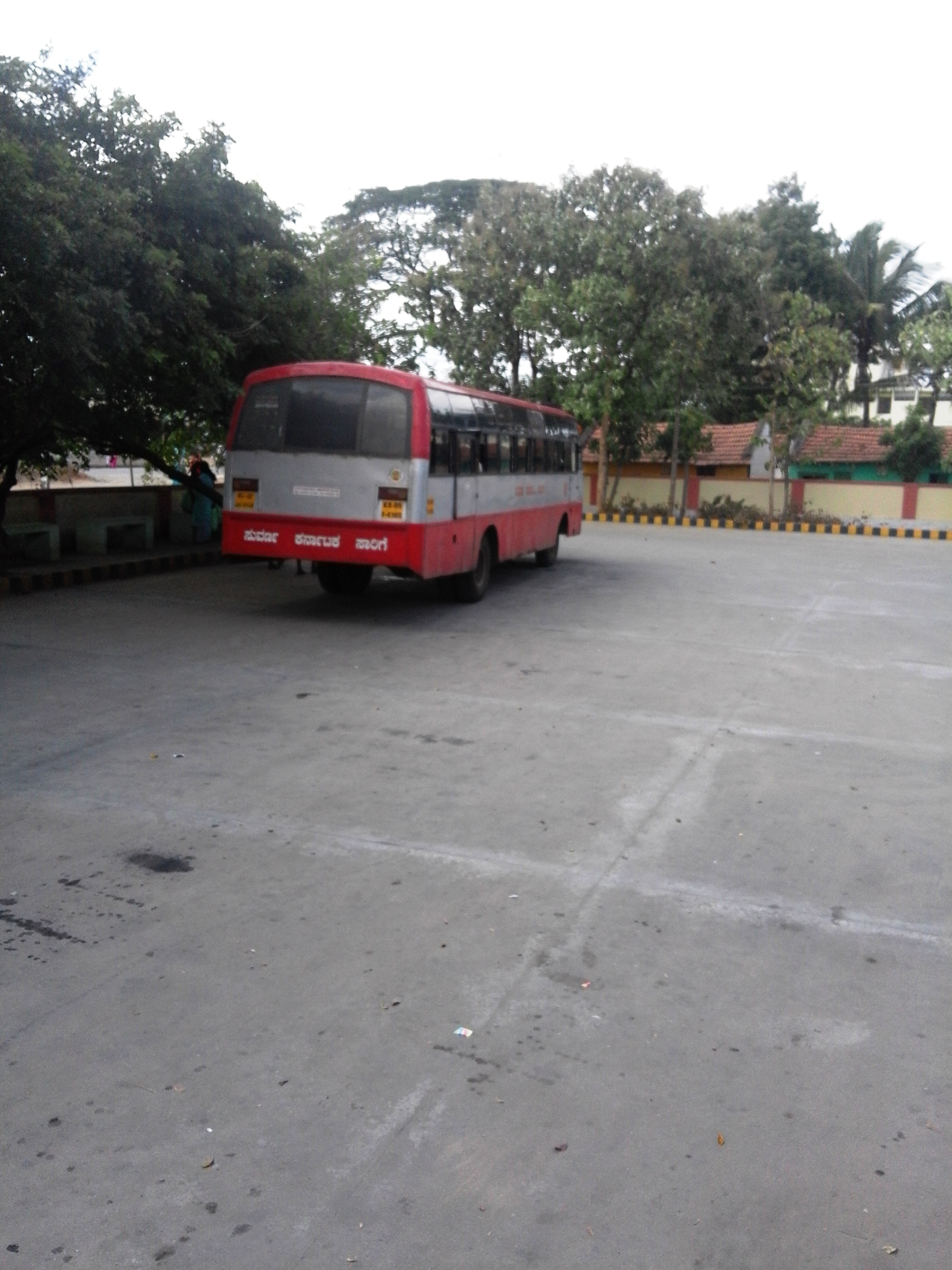 Gundllupet taluk, Chamarajanagar district, Karnataka state, India.